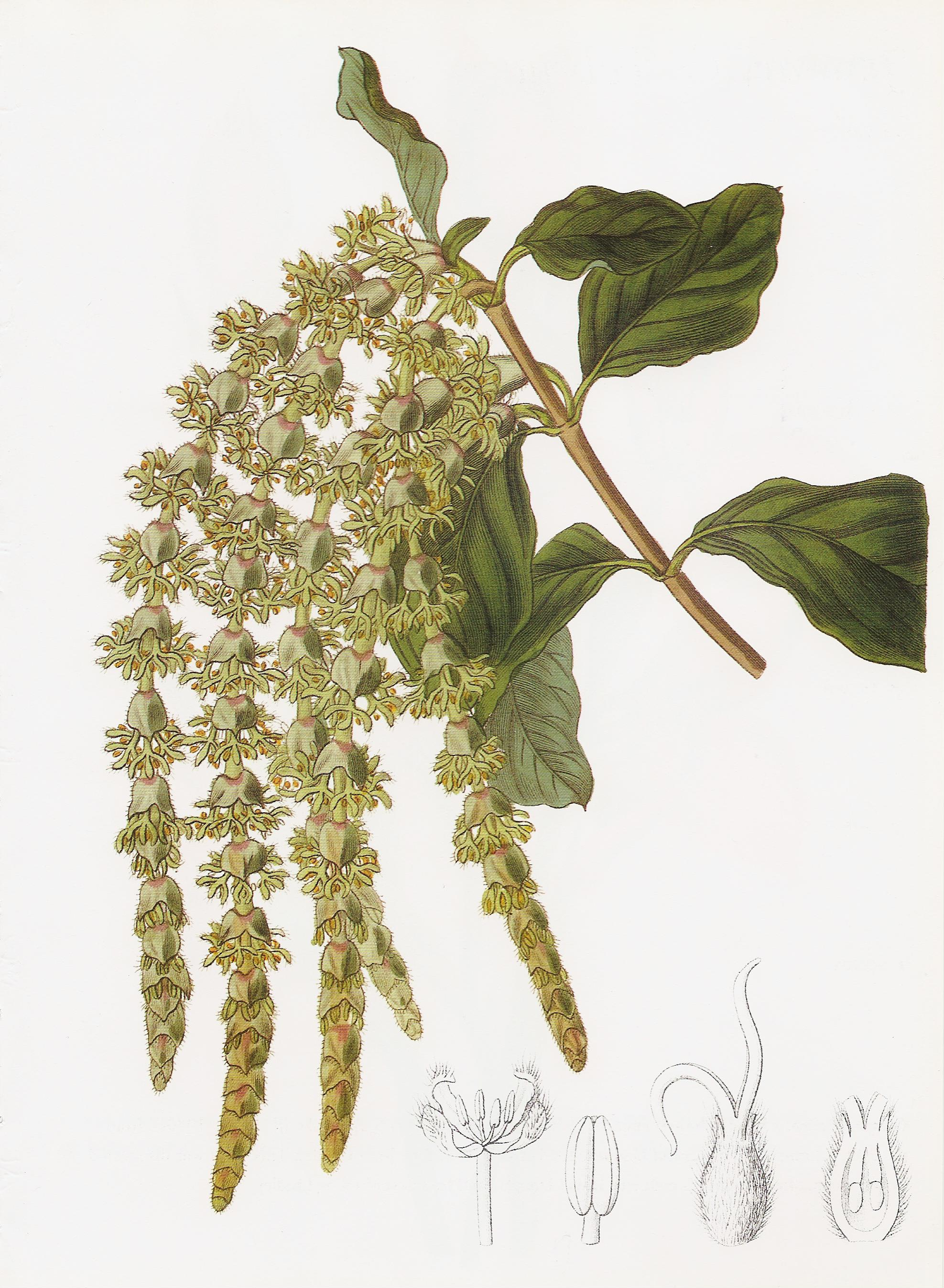 Garrya elliptica, a hand-coloured engraving after a drawing by Miss S. A. Drake (fl. 1820s-1840s), from the 20th volume of the Botanical Register (1834-1835), edited by John Lindley. This plant was discovered by the Horticultural Society's collector David Douglas and first described by Lindley.